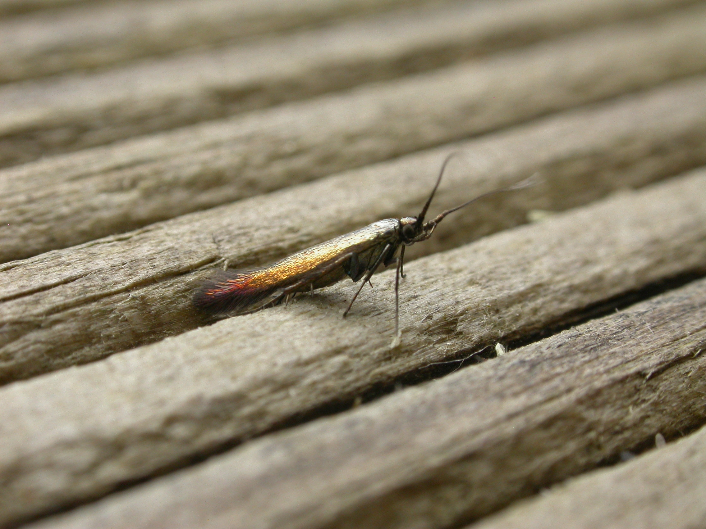 Coleophora alcyonipennella (Kollar, 1832), Burrill Lake, NSW, 6/7 February 2012